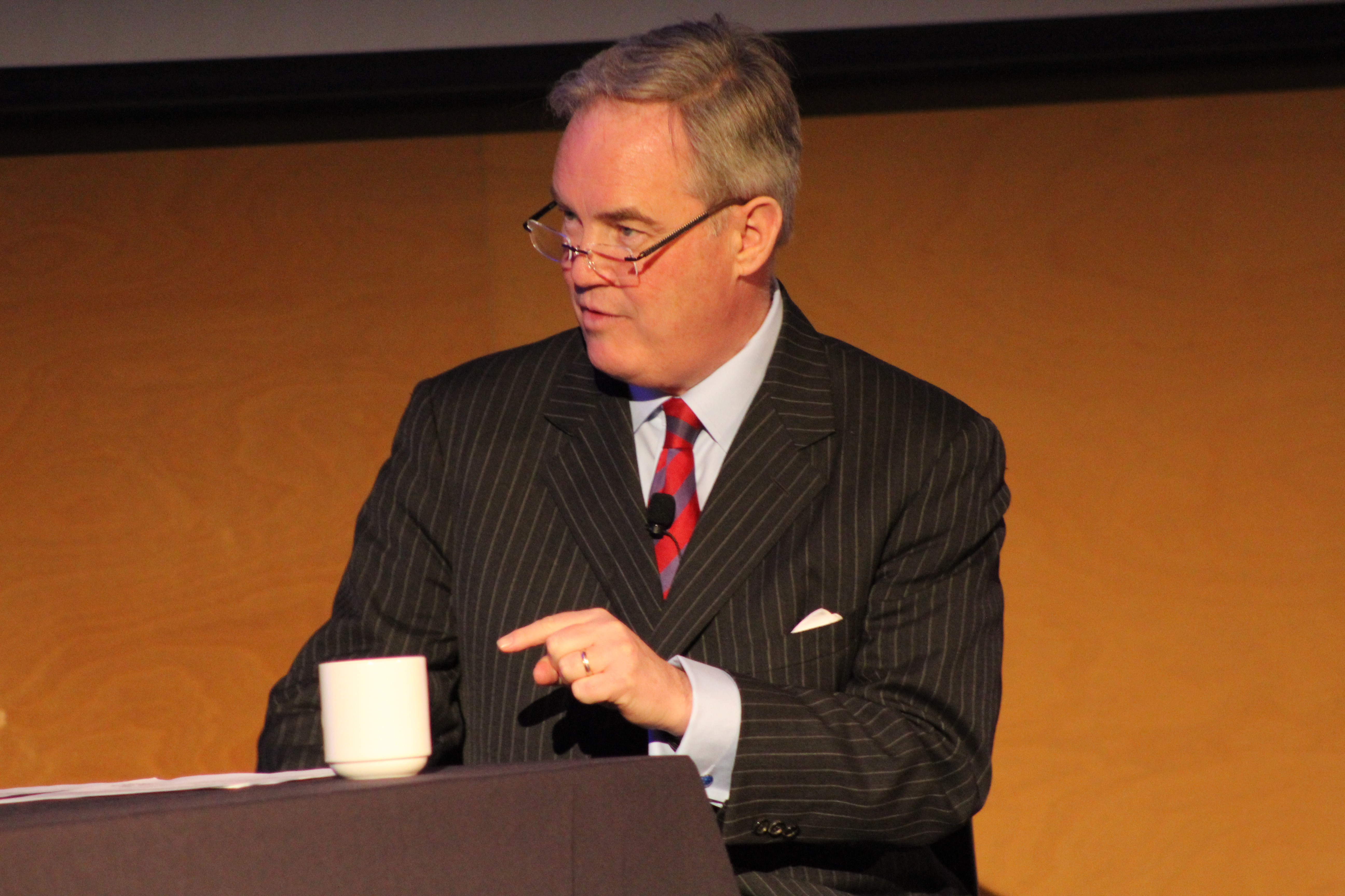 © 2018 IVN.us, IVN News. Free to use with Attribution.